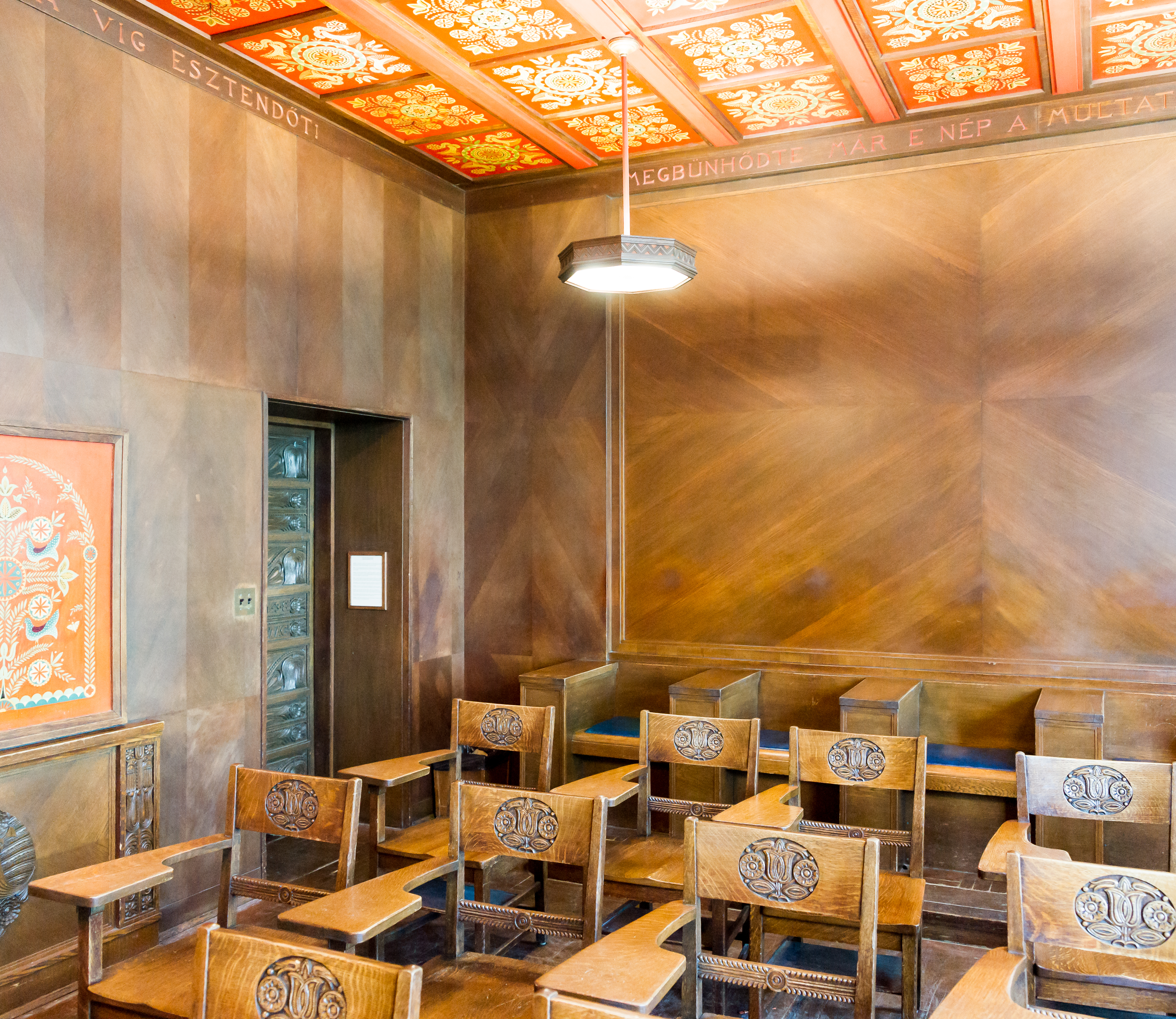 Hungarian Nationality Room in the Cathedral of Learning at the University of Pittsburgh